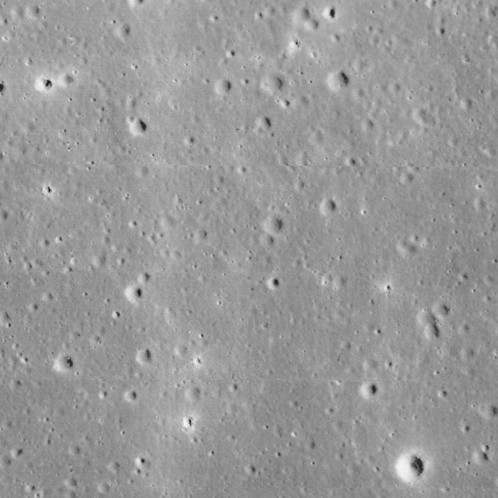 Lunar surface centered on the landing site of Surveyor 1 northeast of the crater Flamsteed. North is at top and the view is about 7.0 km wide. The image was acquired by Lunar Orbiter 1 in 1966, the same year as the Surveyor 1 landing.